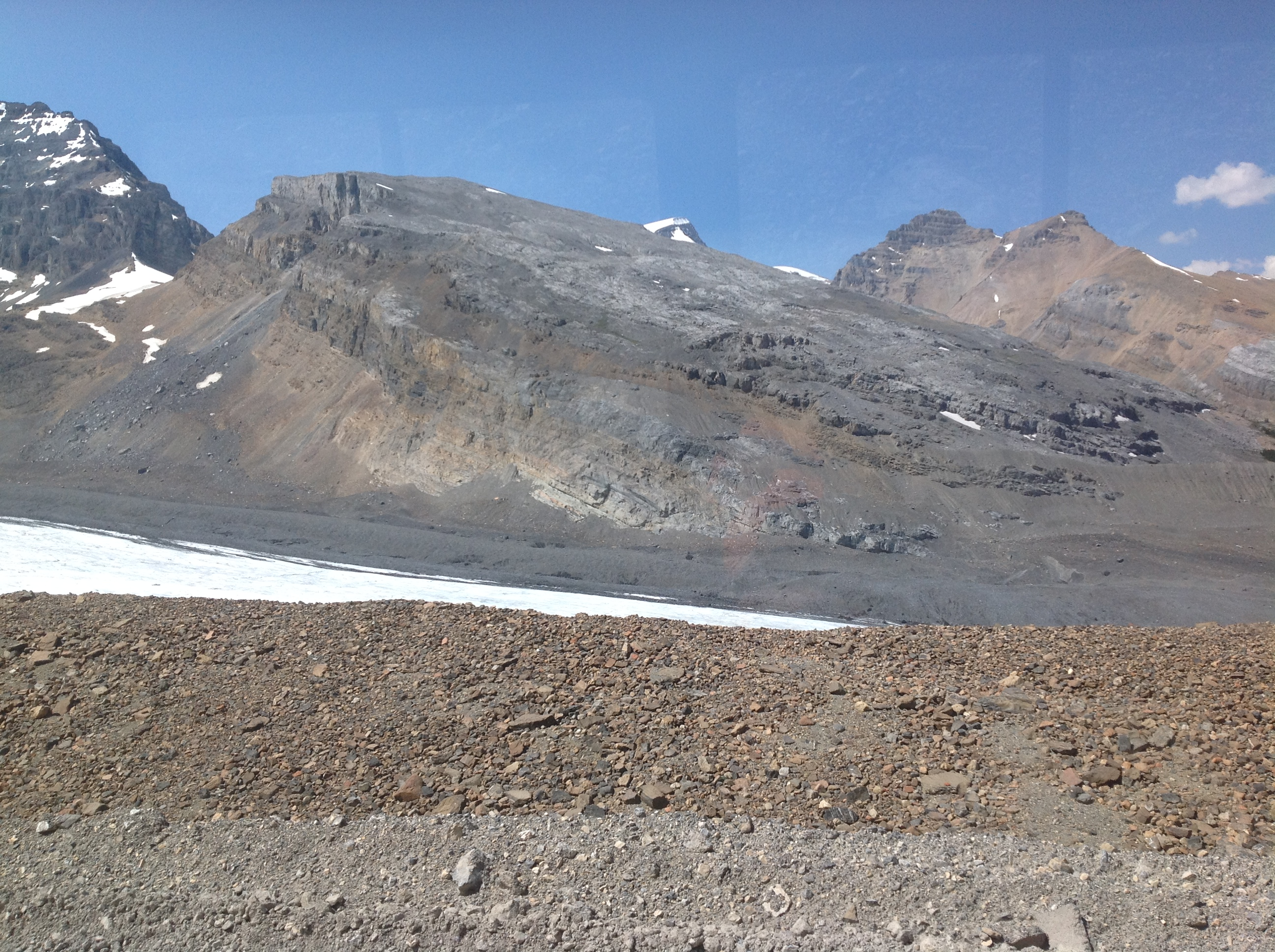 Geologi of Athabasca Glacier